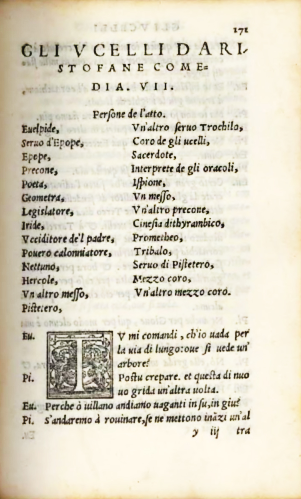 First page from the book Gli ucelli. Tradutt(a) di greco in lingua commune d'Italia, per Bartolomio & Pietro Rositini de Prat'Alboino. In Venegia : Vicenzo Vaugris, 1545